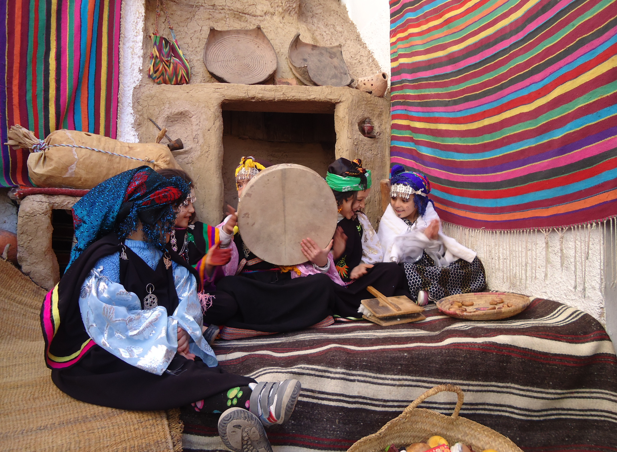 little girls dressed in traditional Chaoui outfits, during the spring festival This is an image of Cultural Fashion or Adornment from Algeria